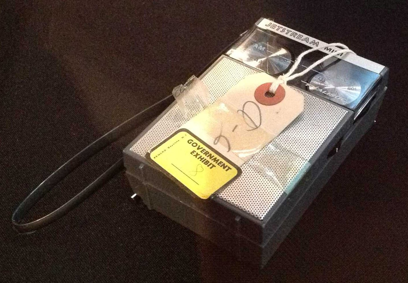 Transistor radio from Record Group 21, UD Entry 7, United States v. G. Gordon Liddy, Exhibit # 18. On display at the Gerald R. Ford Presidential Museum. On loan from the National Archives and Records Administration.